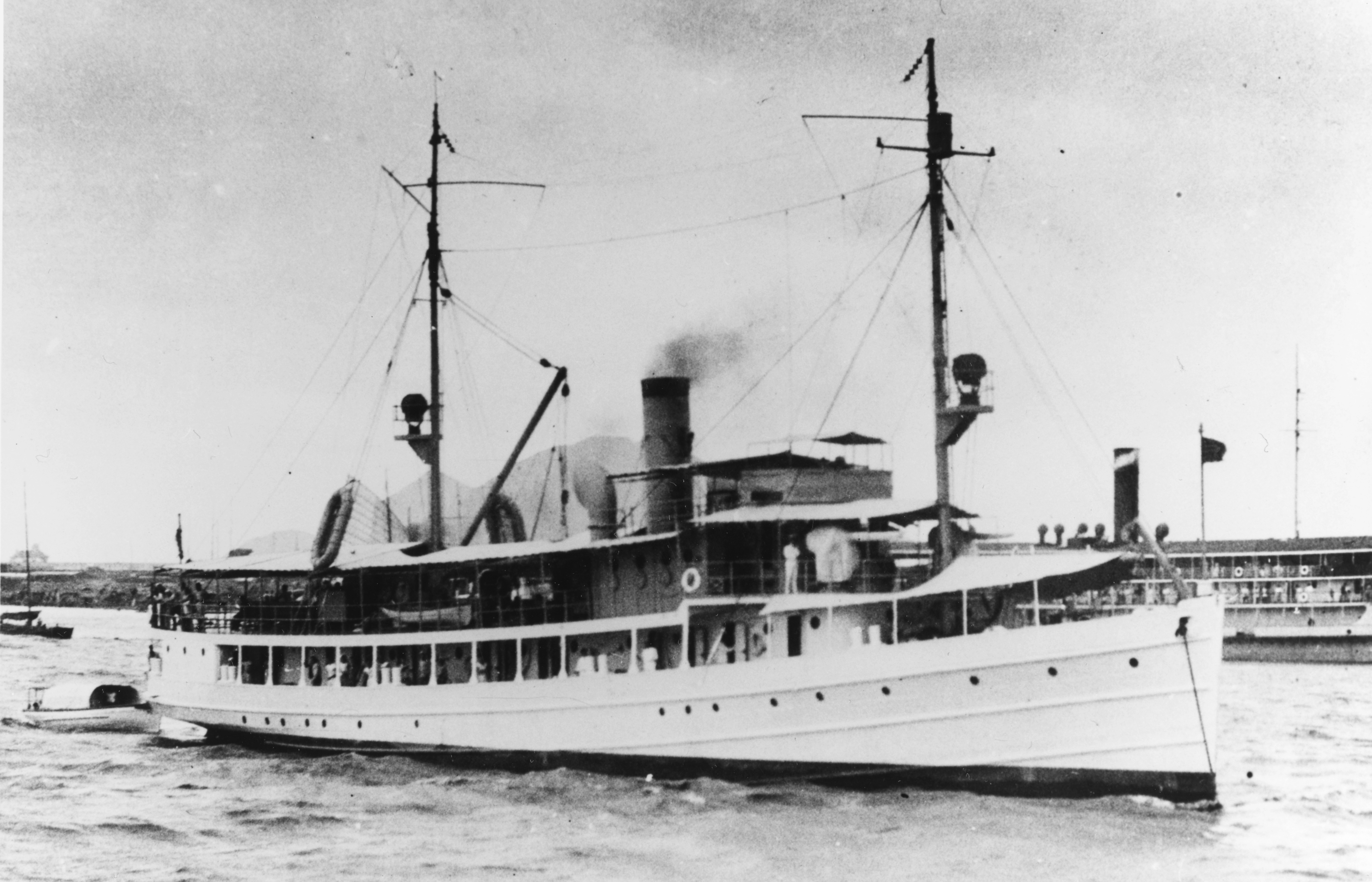 The U.S. Navy minesweeper USS Pigeon (AM-47) in Chinese waters, circa the later 1920s, showing modifications made to fit her as a gunboat for use on the Yangtze River.